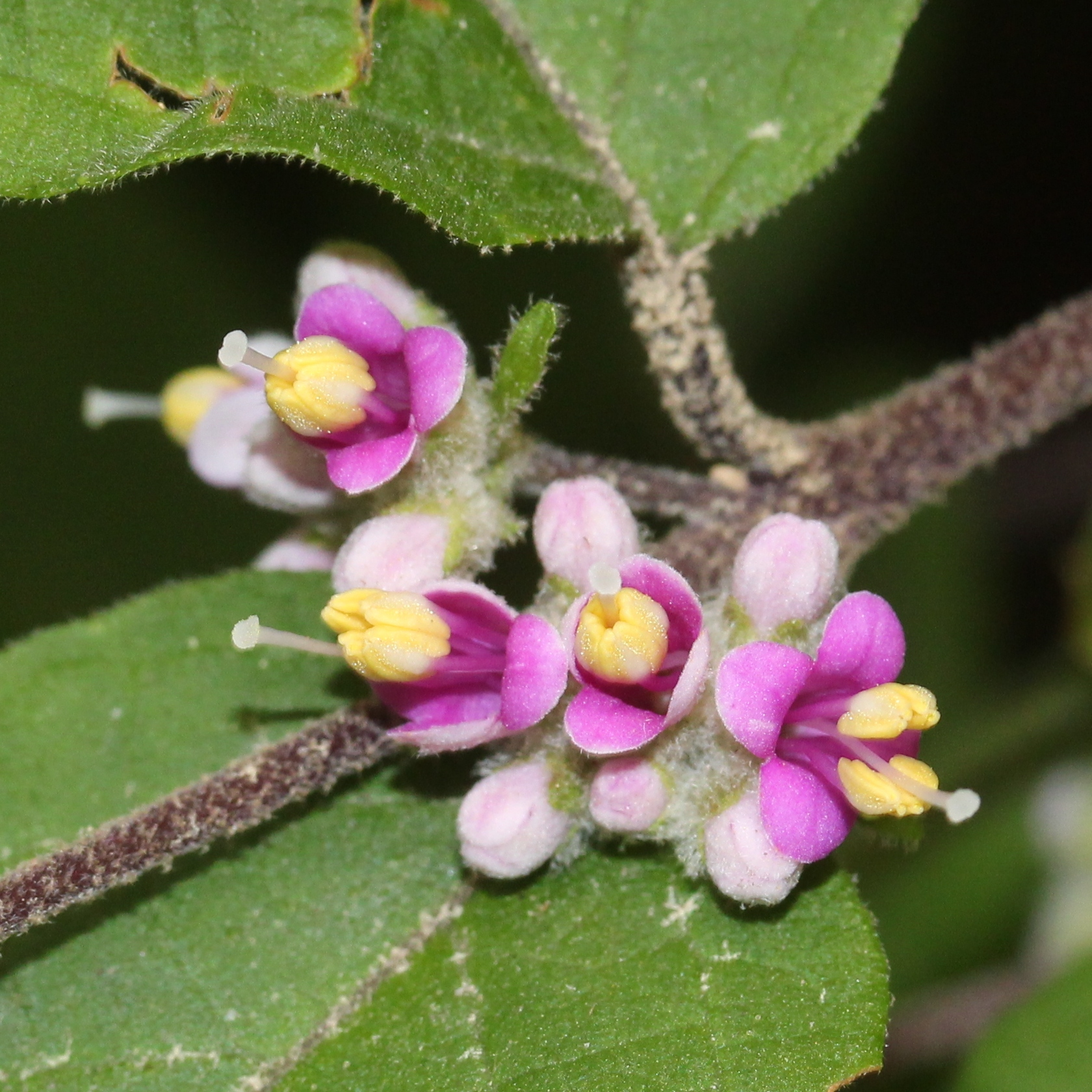 Flowers of Callicarpa mollis in Ibigawa, Gifu Prefecture, Japan.